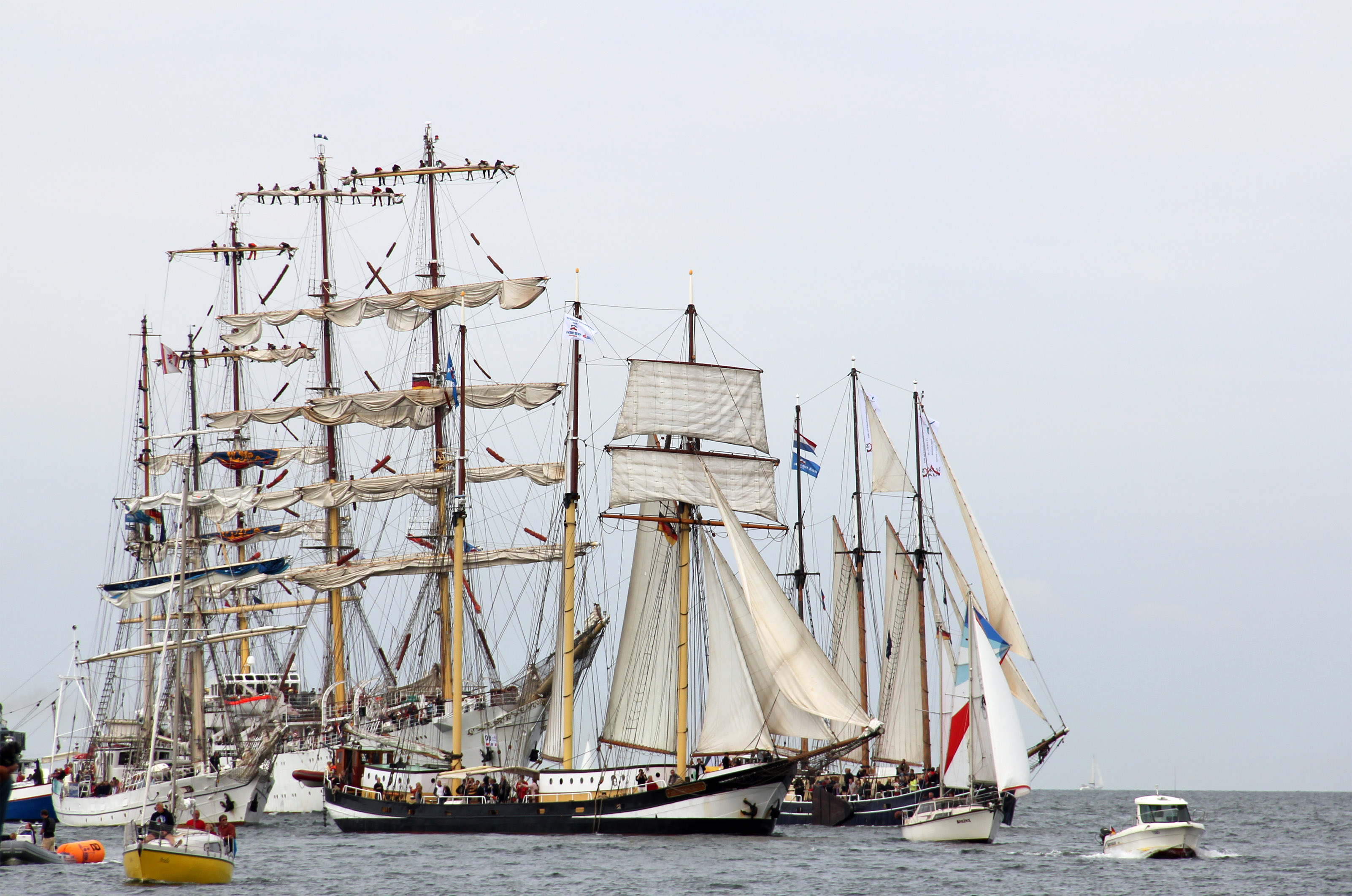 Hanse Sail 2010, Warnemünde, Germany